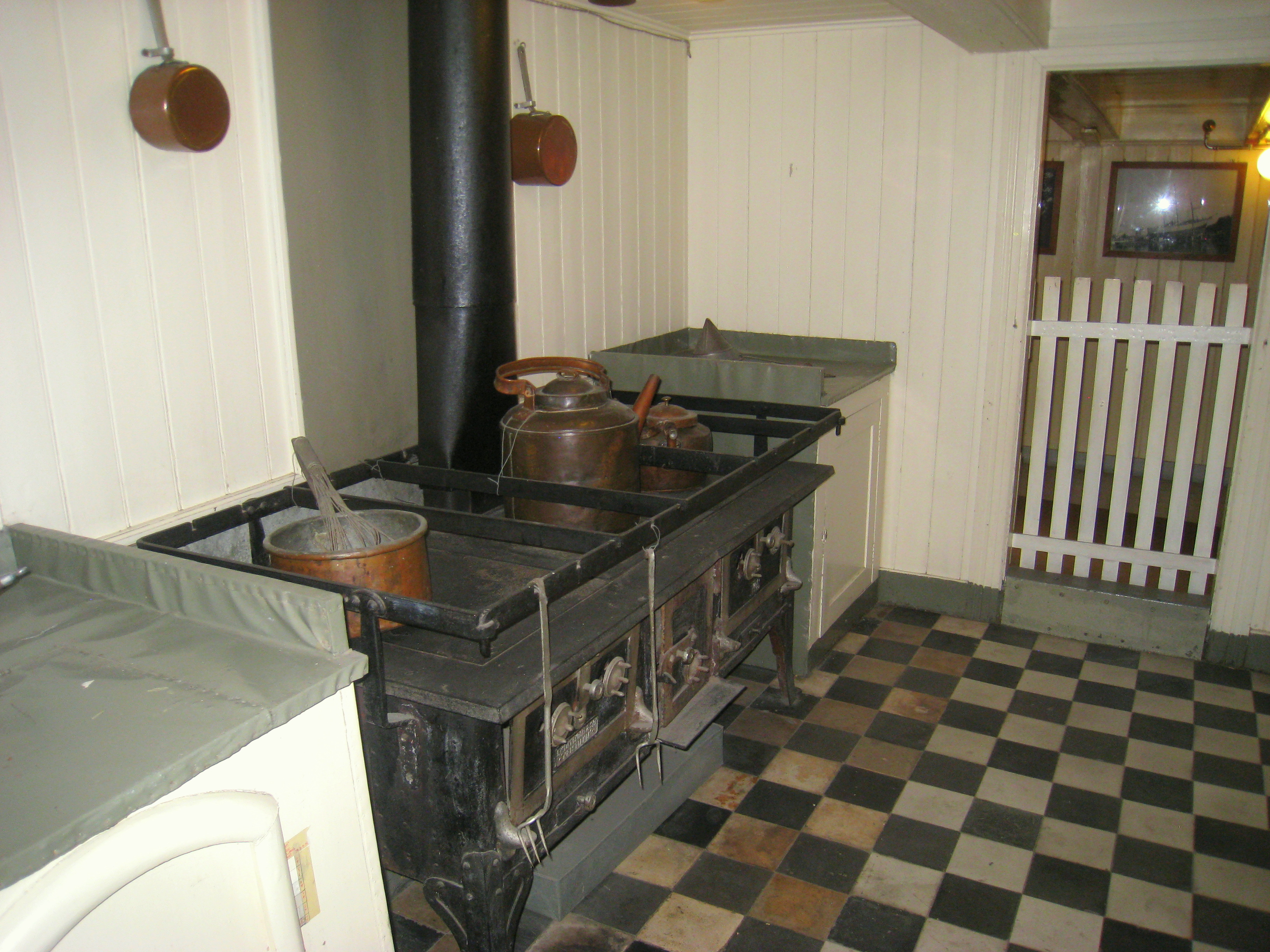 Fram (historic ship) in the Fram Museum, Oslo, Norway.